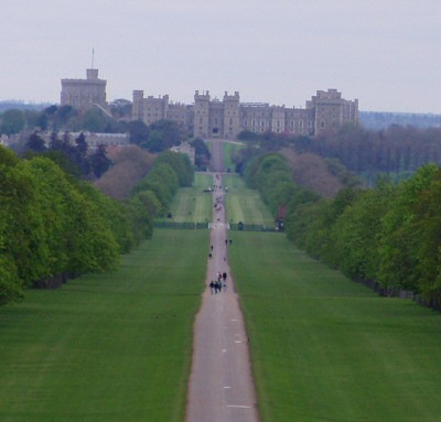 The Long Walk to Windsor Castle in Windsor Great Park.